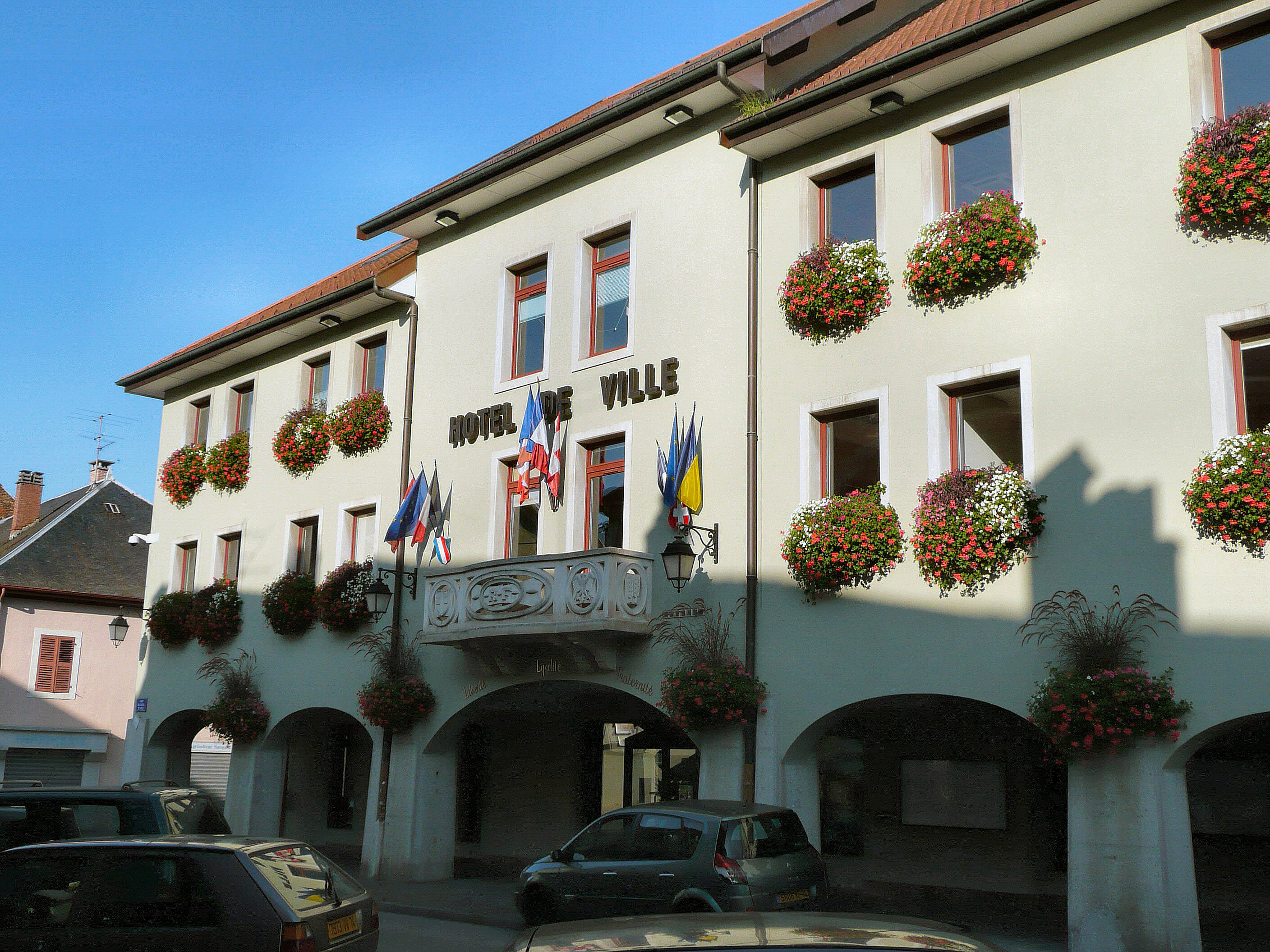 Rumilly Town hall